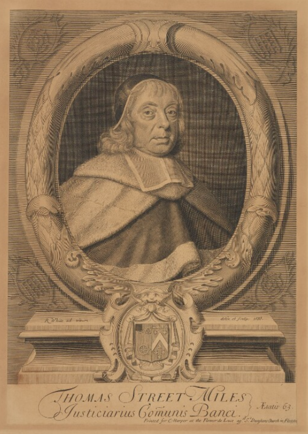 A line engraving of Sir Thomas Street by Robert White, printed for Charles Harper